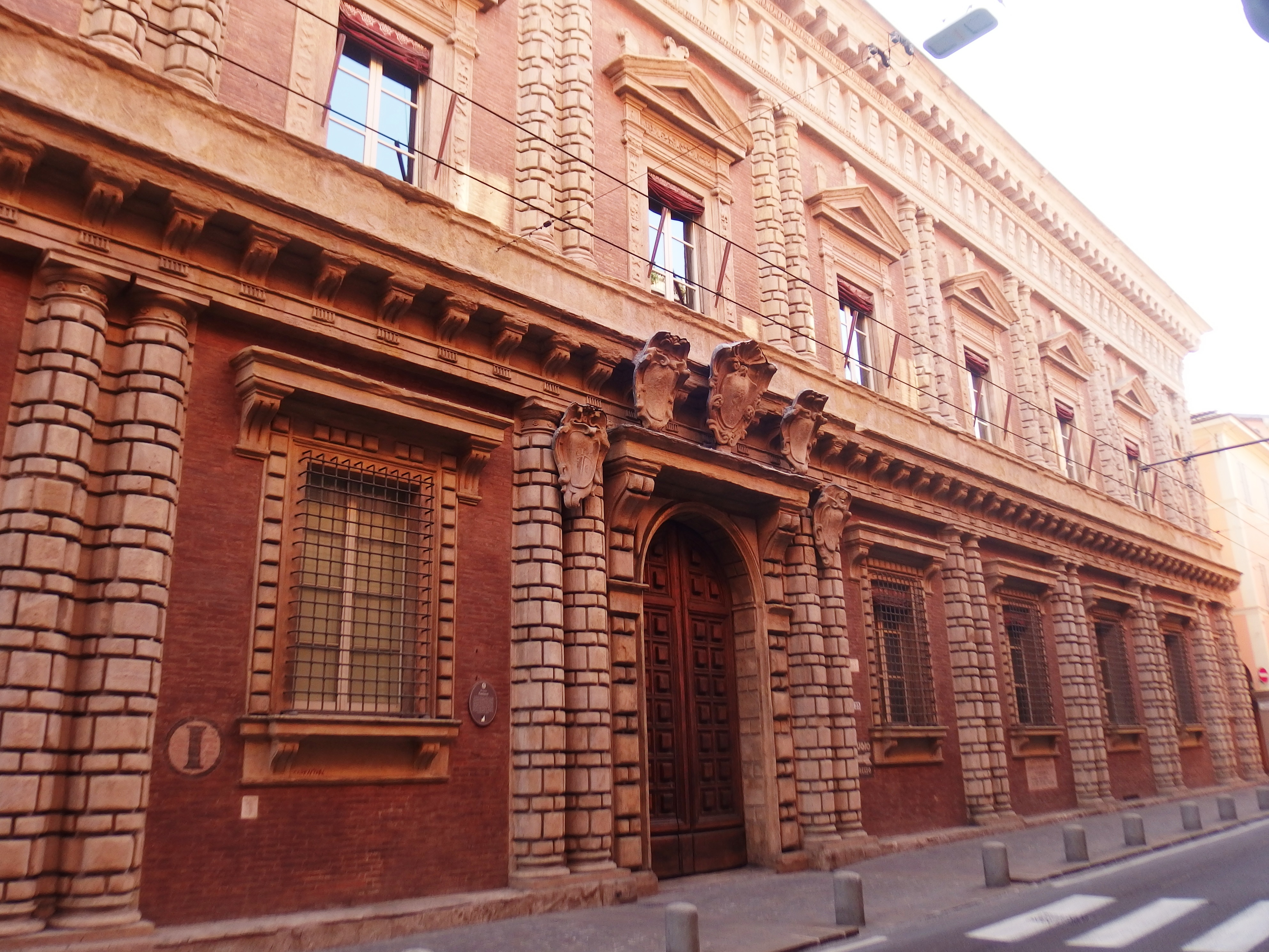 Bologna, Italy. Fantuzzi Palace.